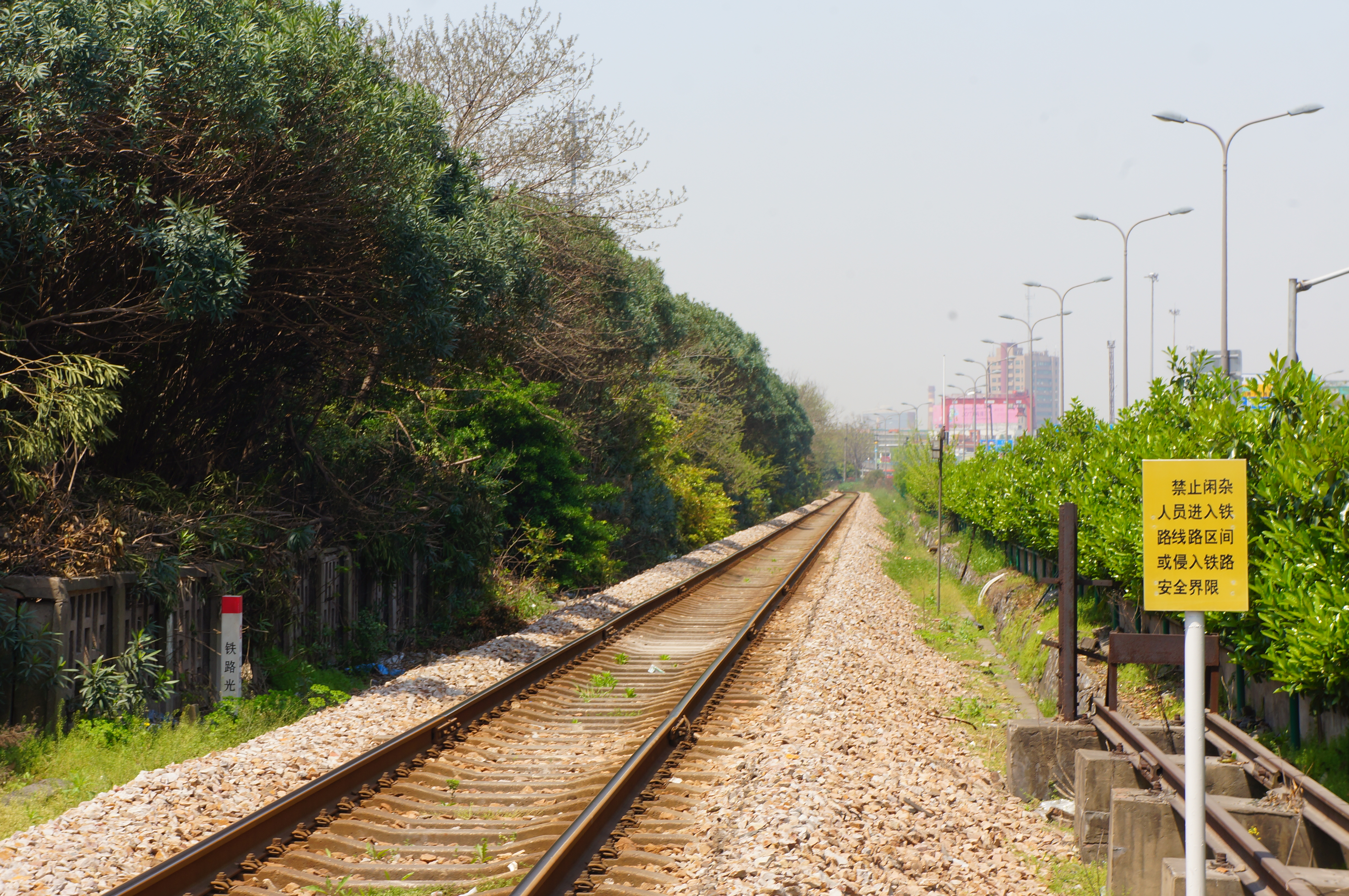 201704 Hejiawan–Yangpu Railway Hejiawan Station near Jungong Road. Hejiawan Station is located just after a left turn.